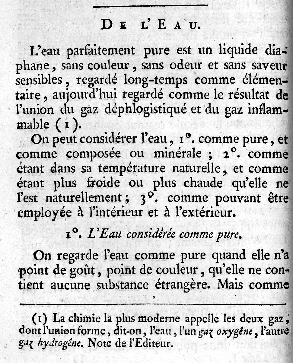 Cours Elementaire de Matiere Medicale. Tome1. page 50.